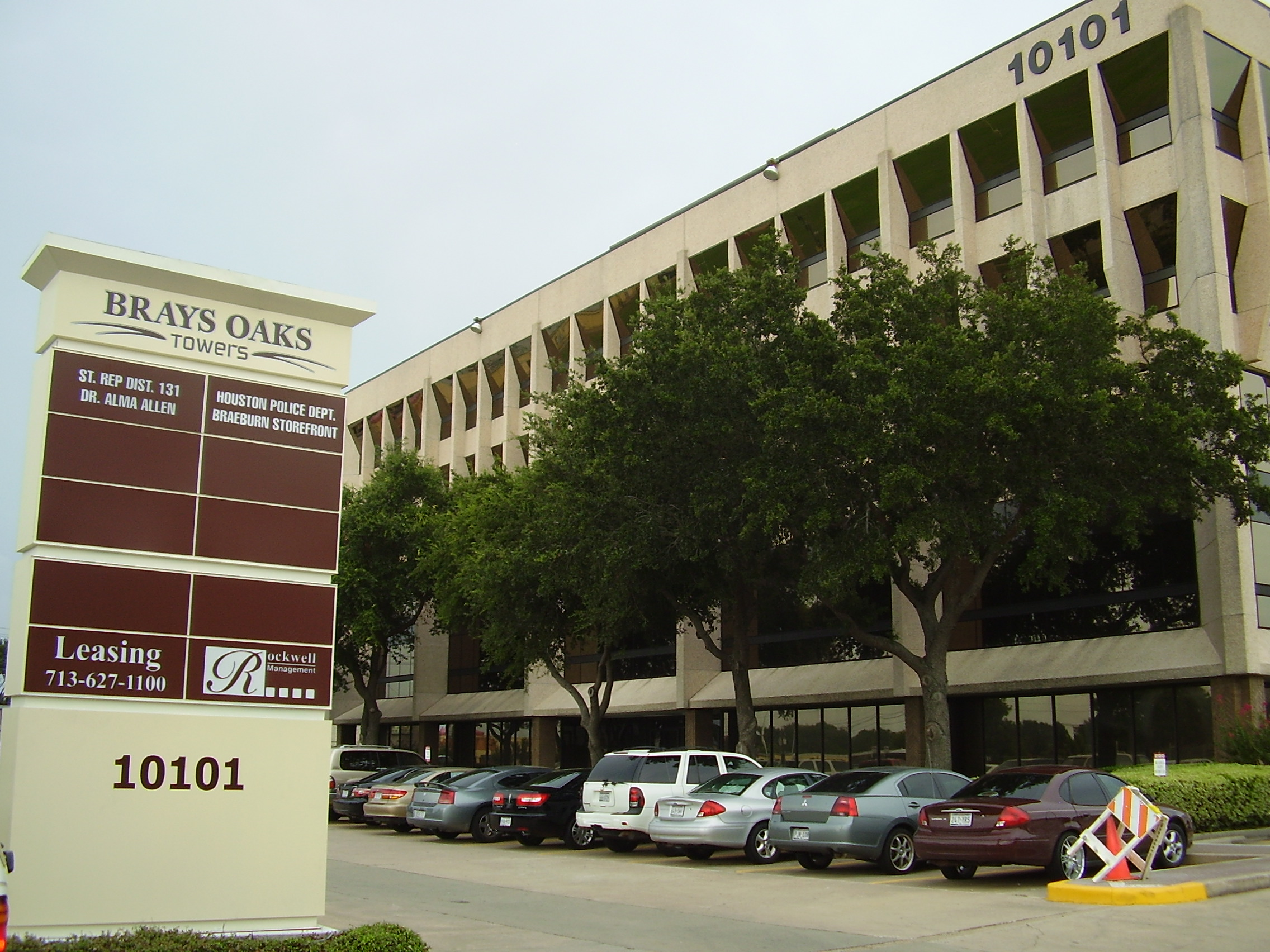 Brays Oaks Towers 10101 Fondren - The complex includes the Braeburn Storefront and the offices of Alma Allen